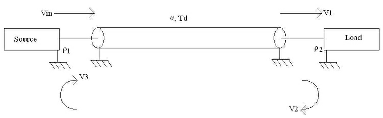 The diagram shows signals and reflections on a length of transmission line